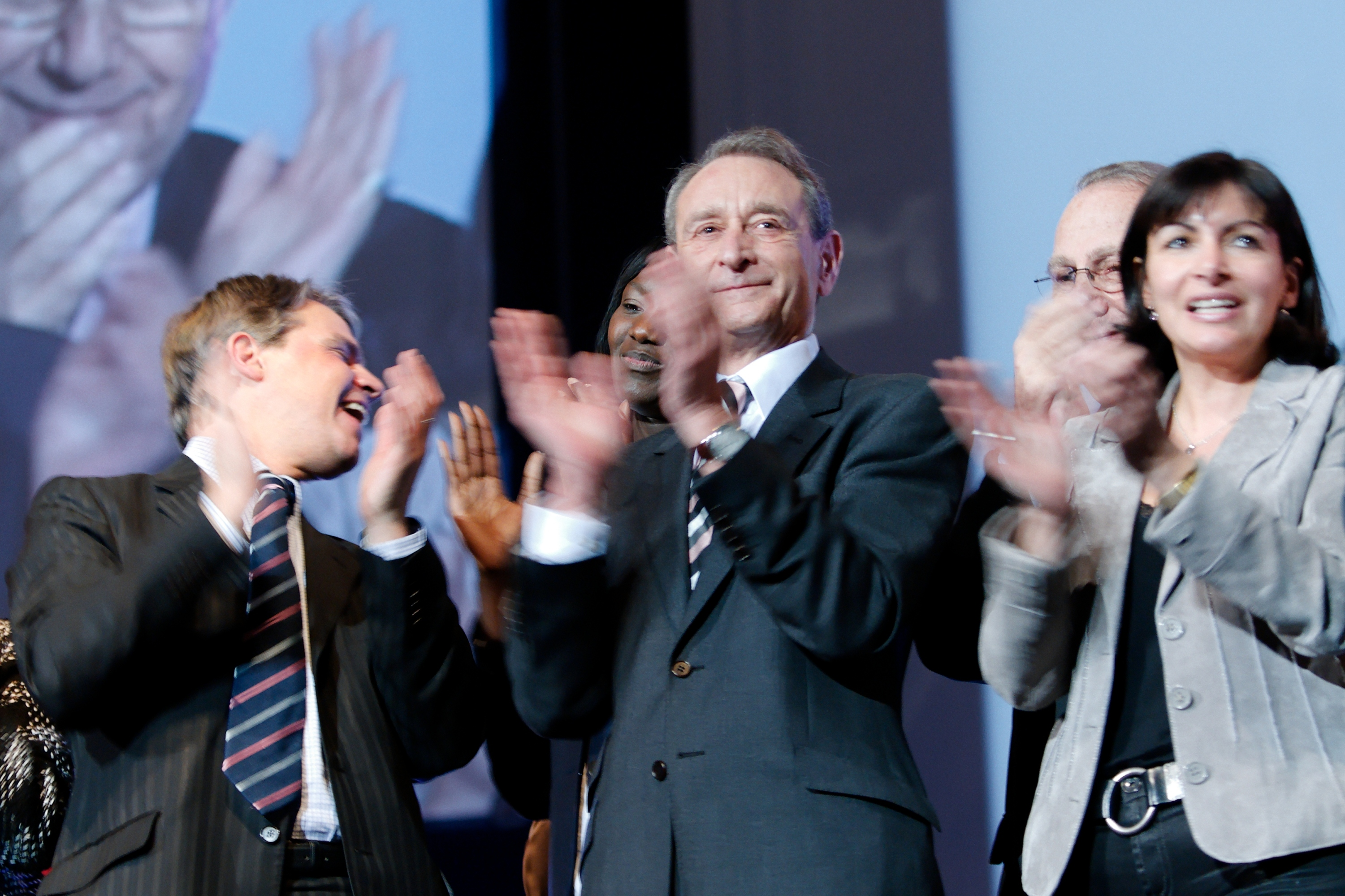 From left to right: Patrick Bloche, Bertrand Delanoë, Anne Hidalgo. Political rally on February 27, 2008 at the Zenith (Paris) for Bertrand Delanoë's campaign in the 2008 Paris town elections.